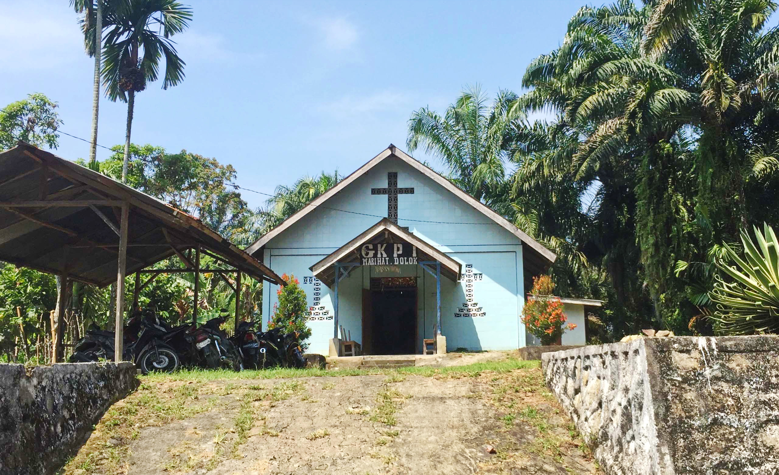 GKPI Marihat Dolok, Res. Tanah Jawa II Church in Marihat Dolok, Dolok Panribuan, Simalungun